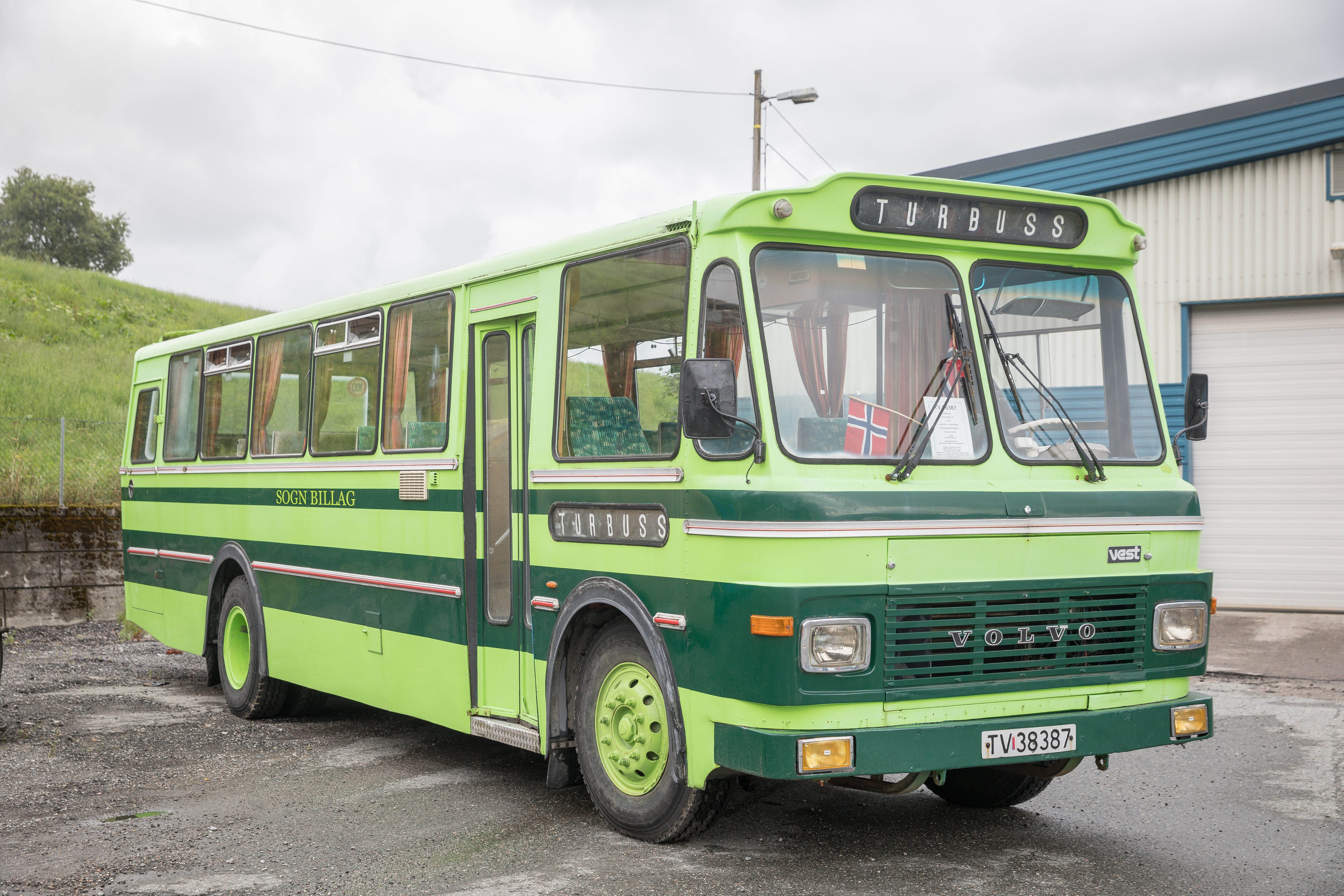 Vintage vehicles at Fjordsteam 2018. The maritime heritage festival took place between August 2 and August 5 2018 in Bergen, Norway.